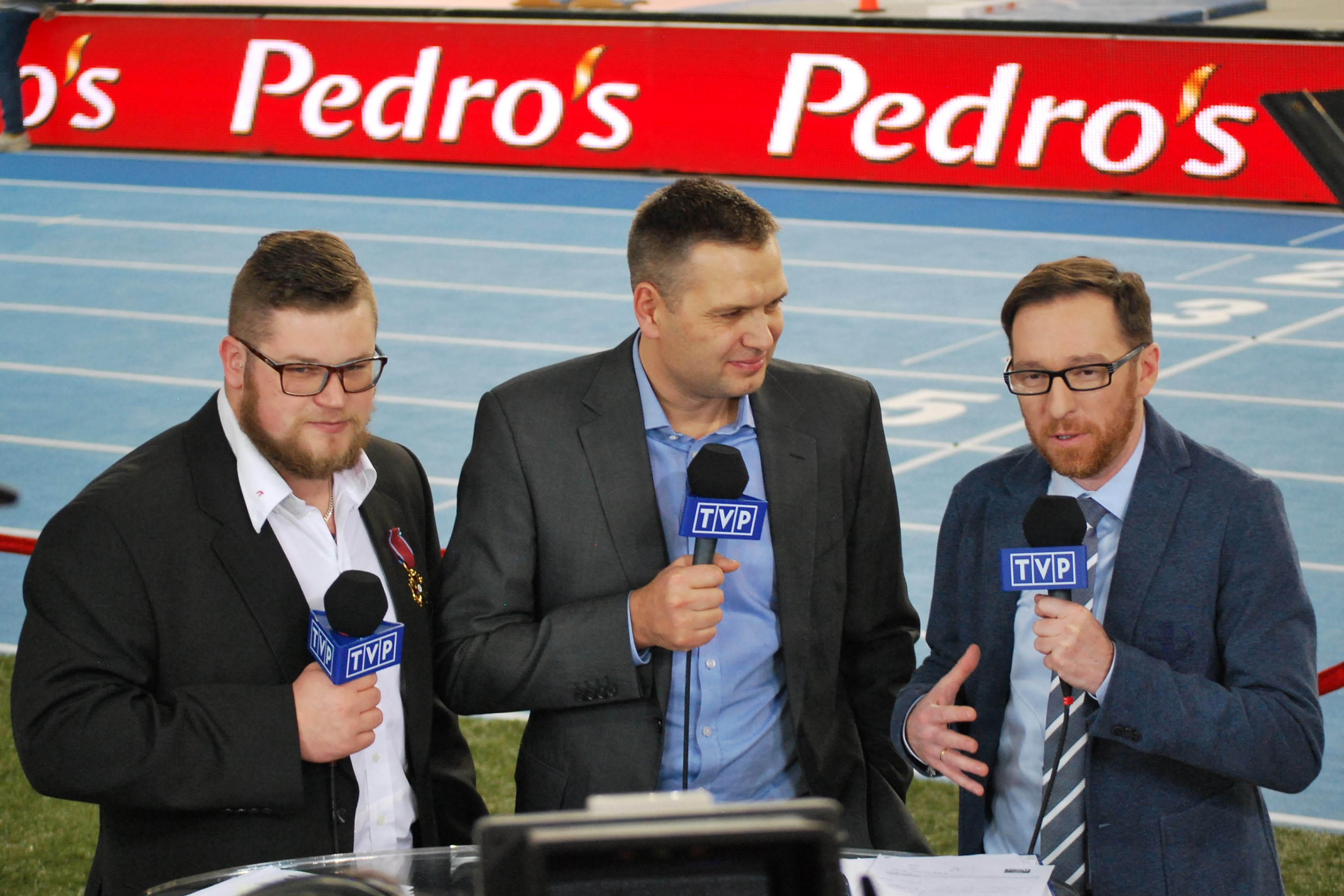 Pedros Cup 2015 Łódź, Paweł Fajdek (hammer thrower), Sebastian Chmara (former decathlete), Maciej Jabłoński (sports journalist)